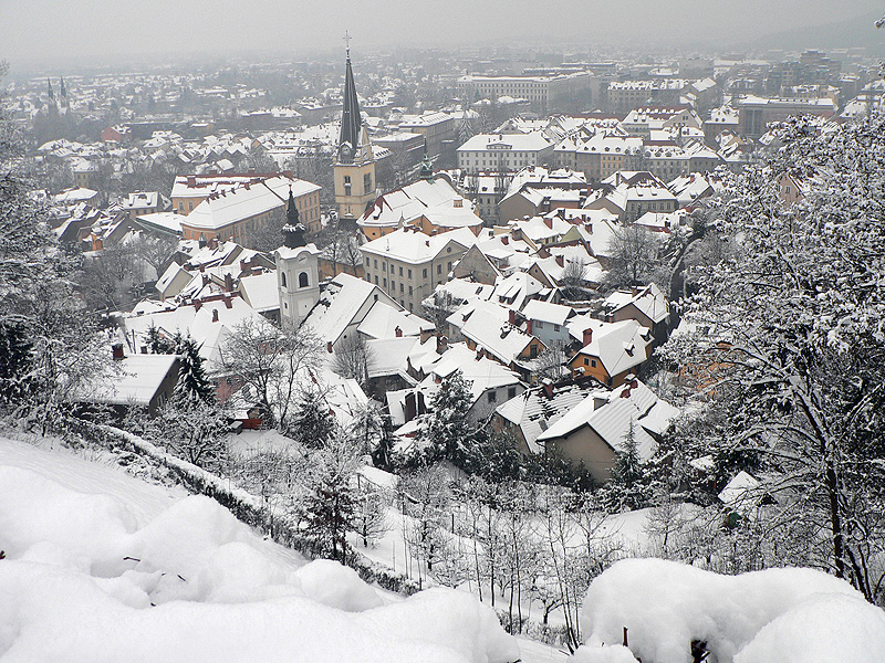 View of Ljubljana from Castle Hill, under the snow.